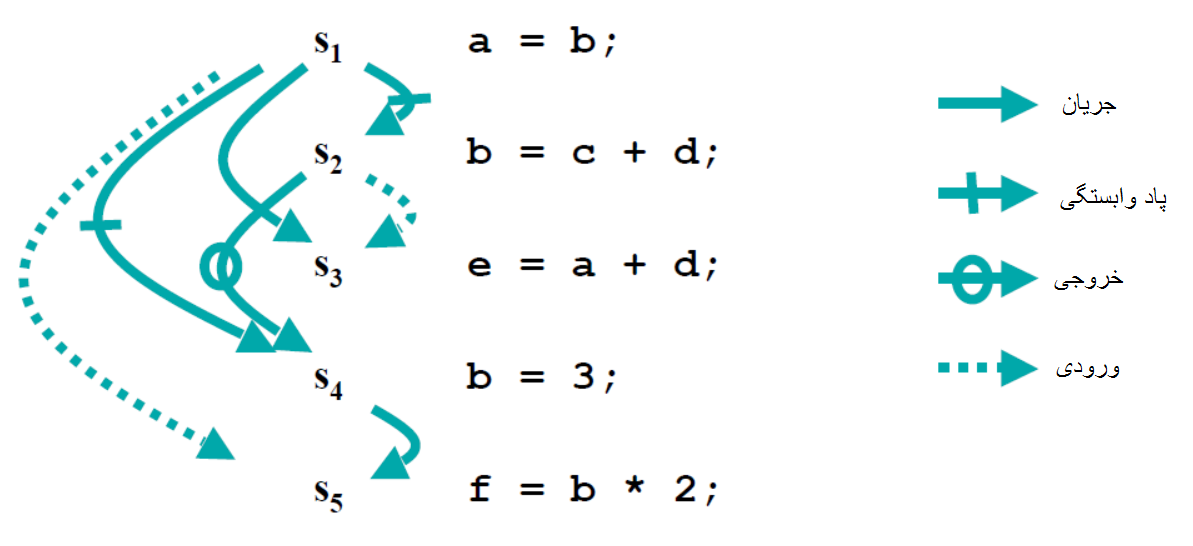 data dependency sample